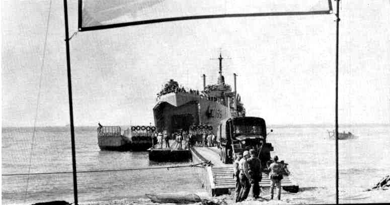 USS Terrebonne Parish (LST-1156) off-loading troops during Sixth Fleet amphibious exercises. US Navy photo for All Hands magazine, December 1961.